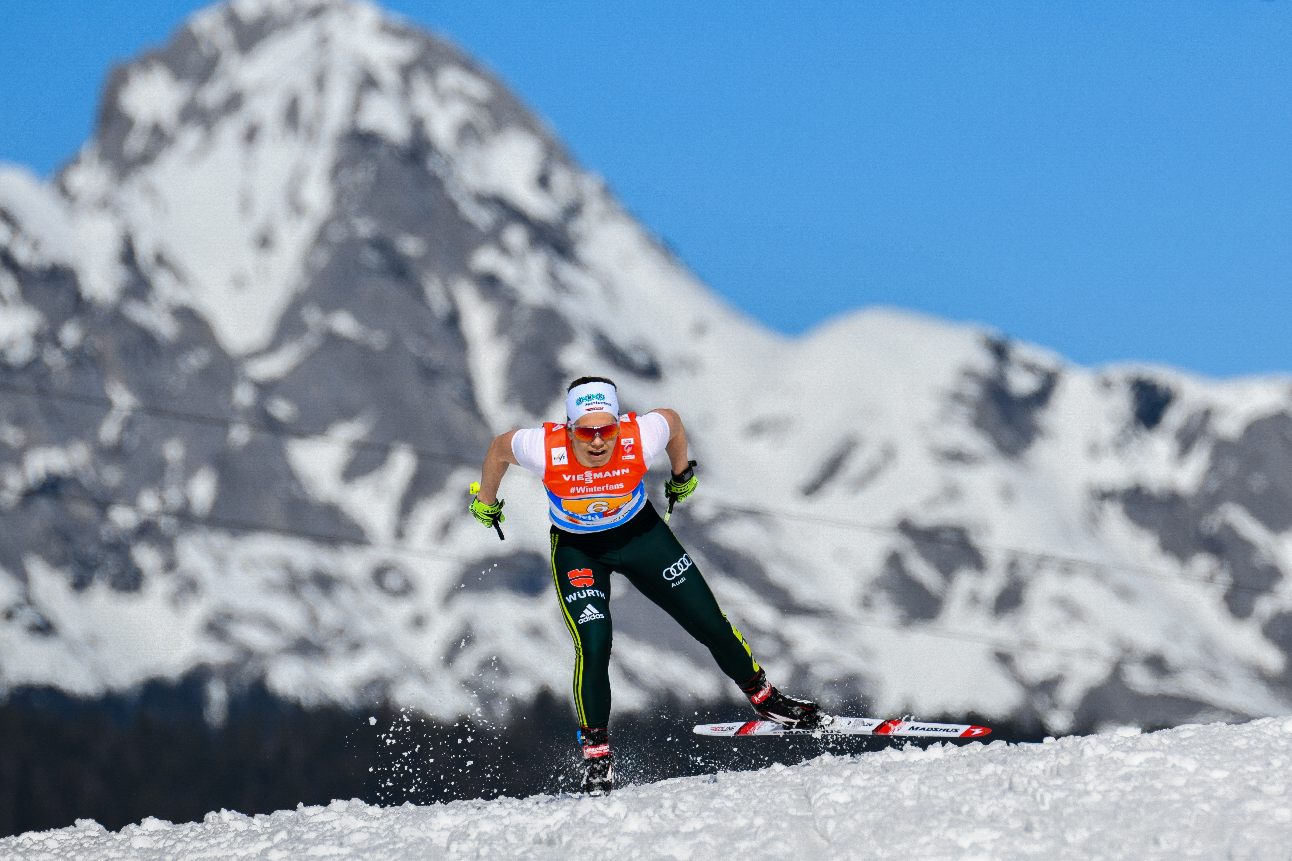 FIS Nordic Wolrd Ski Championships Seefeld 2019 - Ladies 4x5km Relay Classic/Free. Picture shows Sandra Ringwald (GER).